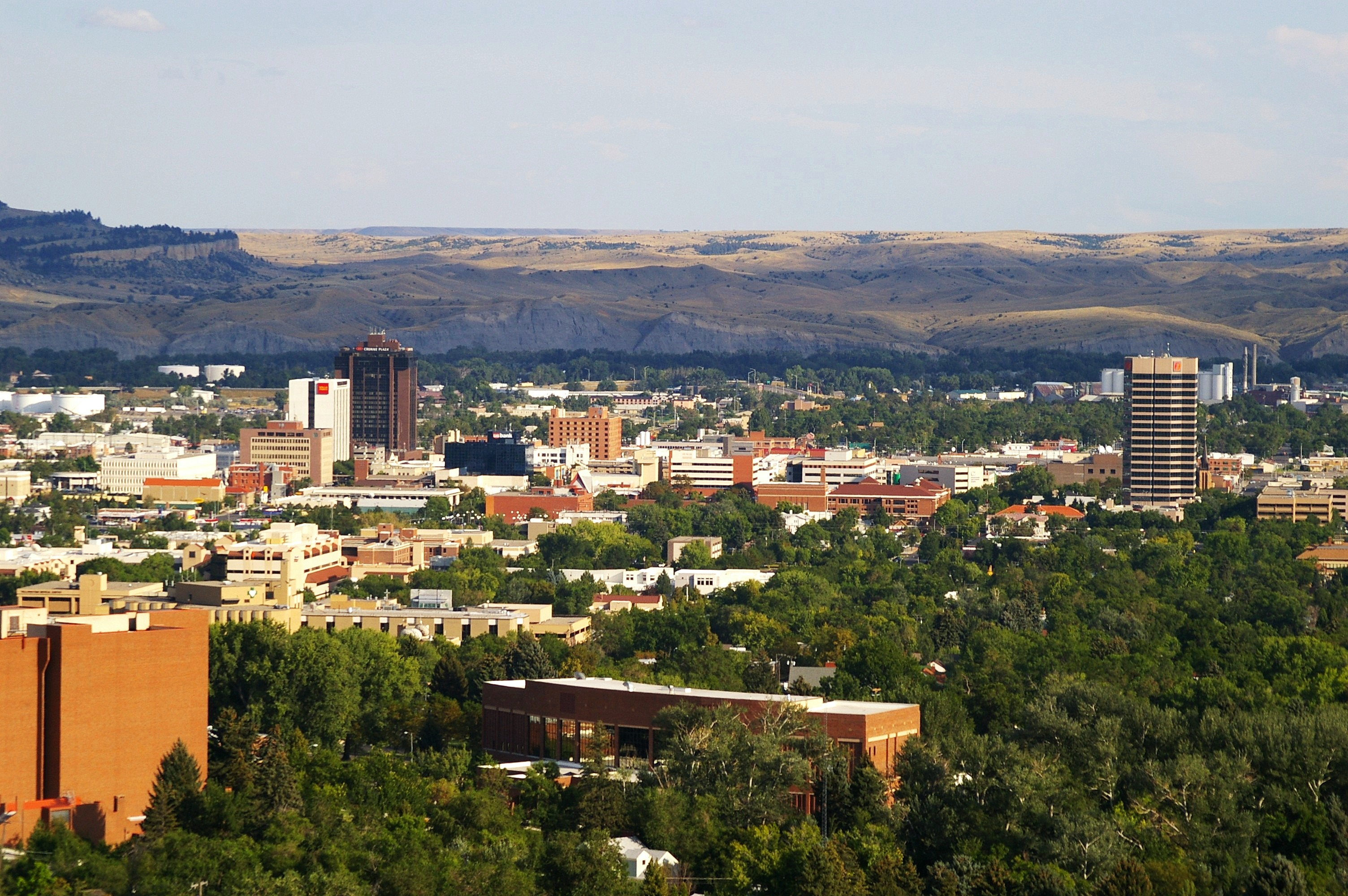 Look at Downtown Billings, Montana, USA